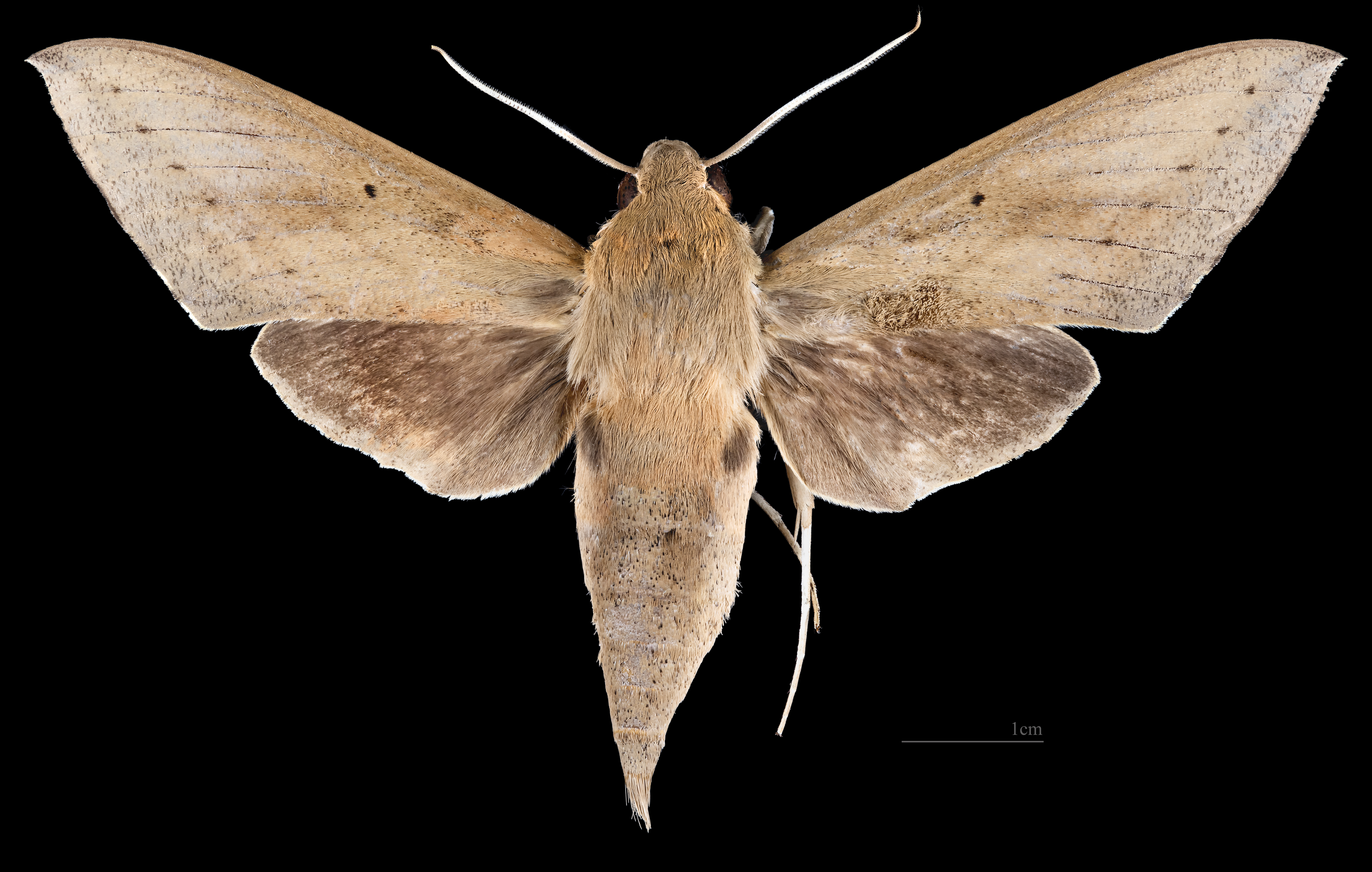 Theretra tryoni - Dorsal side Collection of the Mathematician Laurent Schwartz